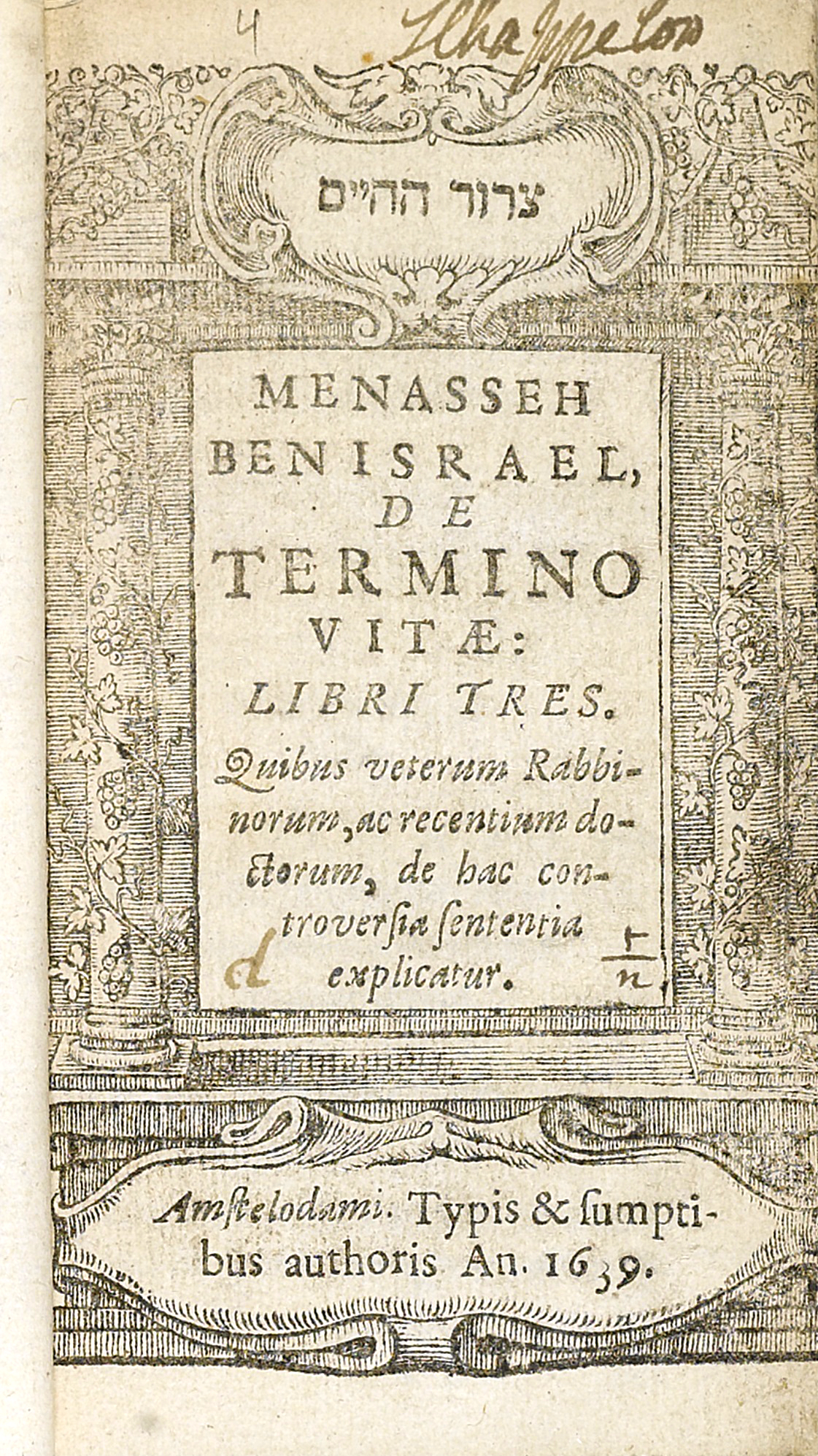 Tzeror ha-Hayyim, De termino vitae: libri tres. (Rabbinical expositions on the span of human life) Menasseh ben Israel, Amsterdam: 1639. In the late 1630s, Menasseh ben Israel (1604-1657), the famed Amsterdam Rabbi, author and printer wrote a series of works in Latin on various theological problems, all printed at Amsterdam—De Creatione (1635), De Resurrectione Mortuorum (1635), and the present work, De Termino Vitæ (1639). Here, Menasseh lays stress on the universality of salvation and on the freedom of man. Menasseh explained the Jewish viewpoint on the span of human life (first part), the possibility of extending life (second part) and the compatibility of human freedom with God's foreknowledge (third part). In addition, Menasseh records autobiographical information, unmentioned in any of his other works, including his father's imprisonment and torture by the Spanish Inquisition, and the family's successful quest for safe haven in the Netherlands. Menasseh also refers to his teacher Rabbi Isaac Uziel, his marriage to Rachel Abravanel, his two sons Samuel and Joseph and his daughter Gracia, and his brother Ephraim, whom he sent to Brazil (pp. 236-7.) As demonstrated by Hausherr, Menasseh assisted Rembrandt with the interpretation of a dramatic scene from the Book of Daniel (5:1-30) portrayed most famously in Rembrandt's Belshazzar's Feast of about 1635, hanging in the National Gallery, London. In this monumental painting, the prophecy of Belshazzar's demise, inscribed by a mysterious hand, the warning 'Mene, Mene Tekel u-Farsin,' reads vertically rather than horizontally. The same formulation is given by Menasseh in the present work (p. 160.) Literature: Reiner Hausherr. "Zur Menetekel-Inschrift auf Rembrandts Belsazarbild" in Oud Holland, vol 78, 1963: pp. 142-49.